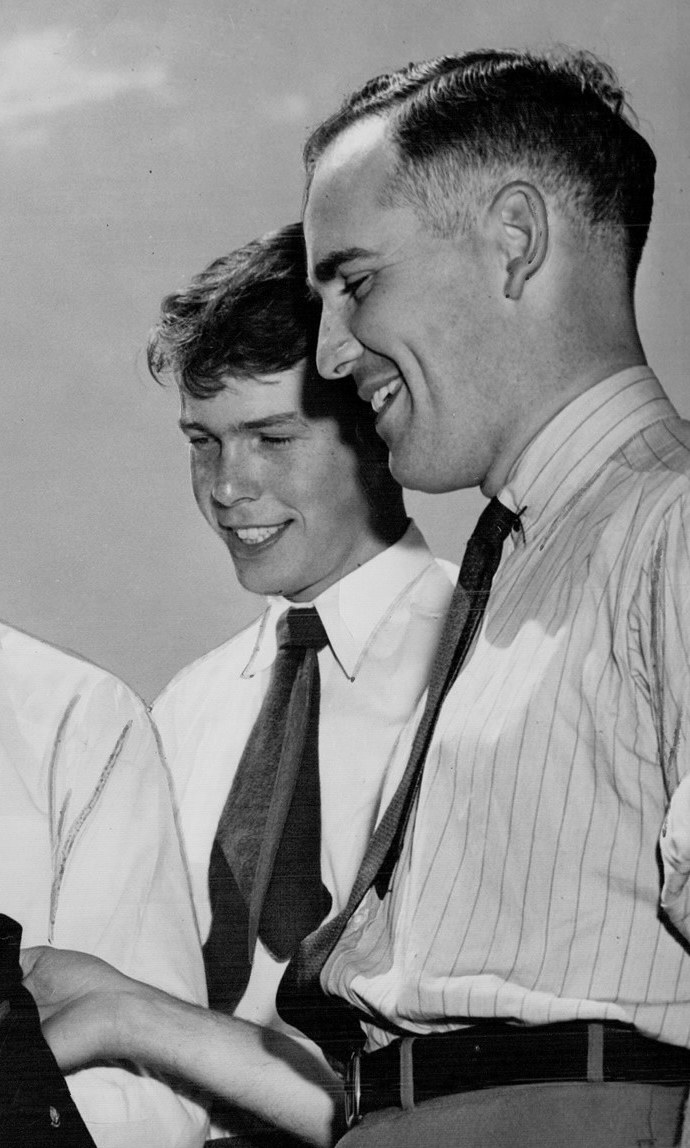 Toronto men bound for Olympics seen admiring a Canadian blazer; are from left: John Robertson and Bill Gooderham. They will compete in sailing races when they reach England.